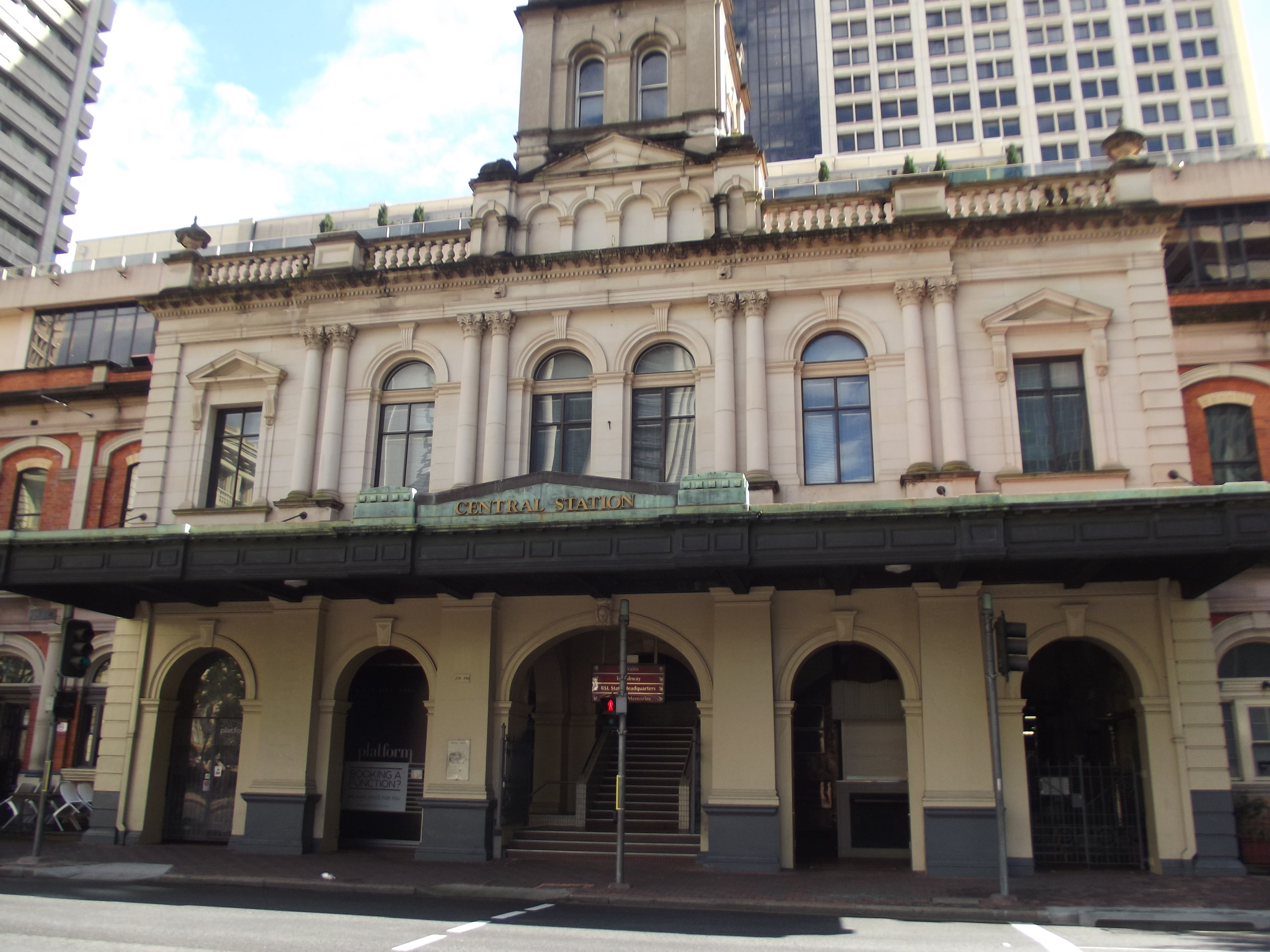 A photo of the Central railway station, operated by TransLink, located in Brisbane, Queensland.